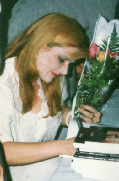 Arina Avram